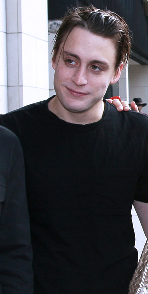 Kieran Culkin at the 2008 Toronto International Film Festival